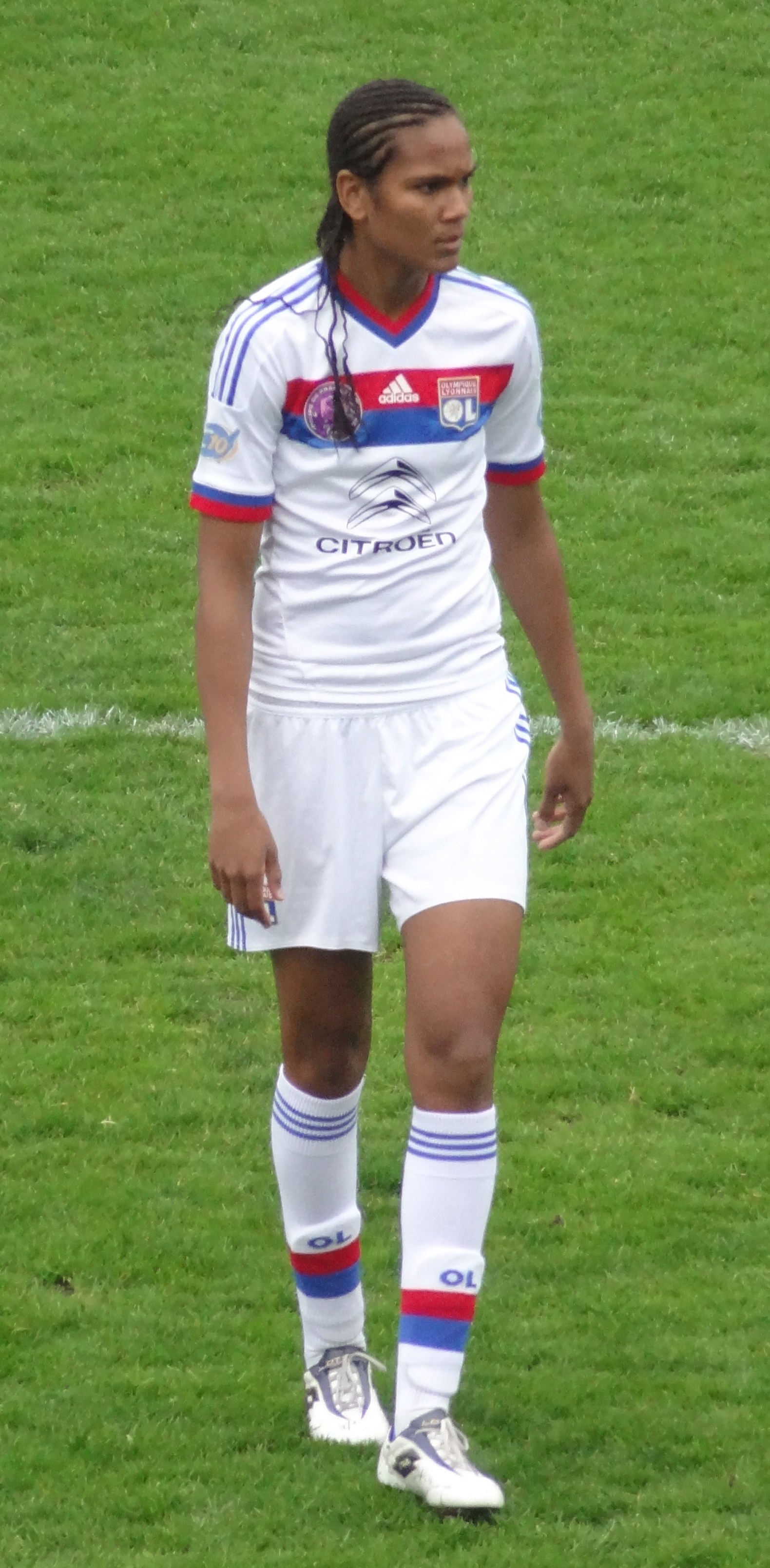 Wendie Renard (Olympique Lyonnais)